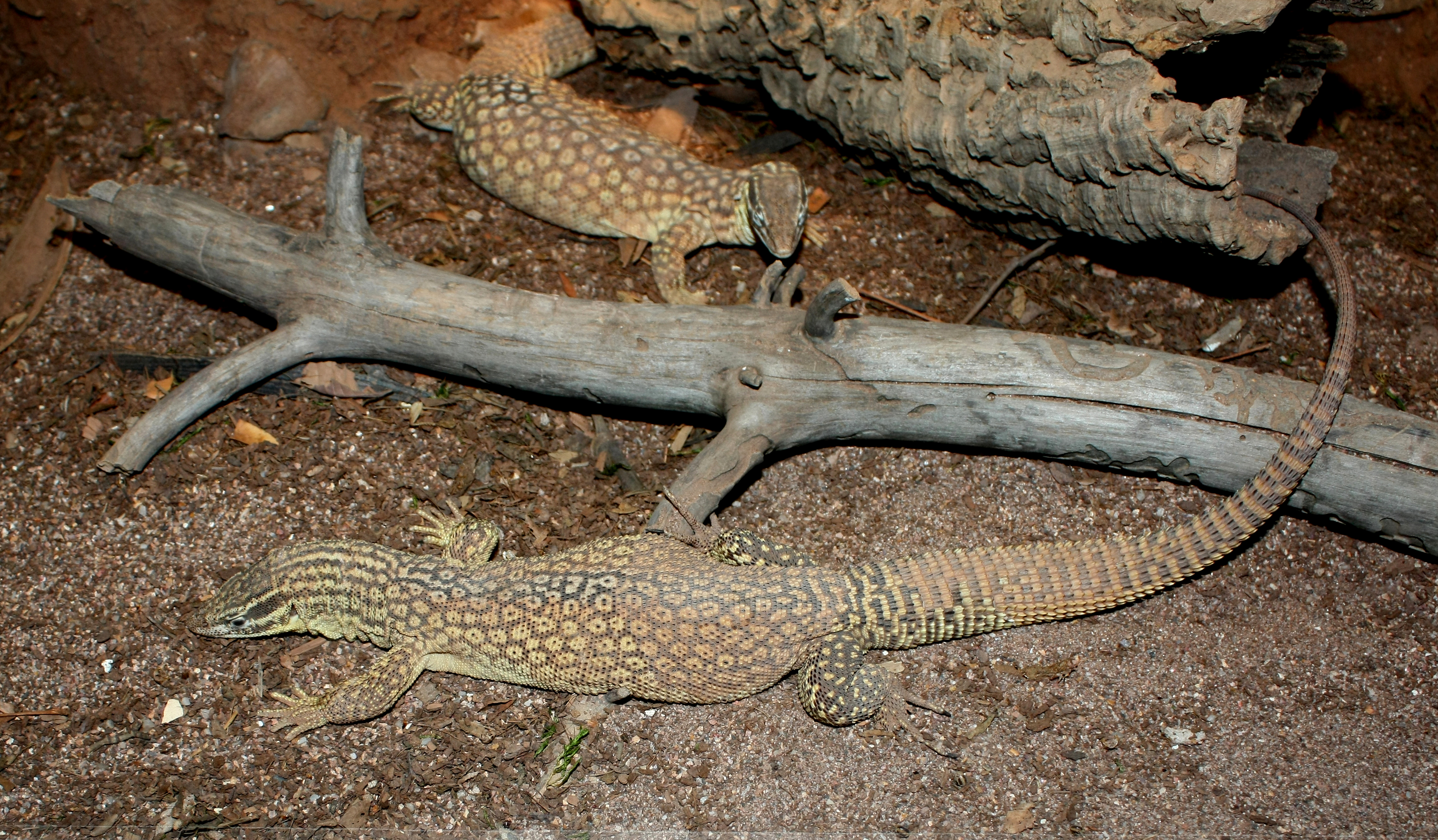 Ackies Dwarf Monitor - Varanus acanthurus. Taken at the Cincinnati Zoo.